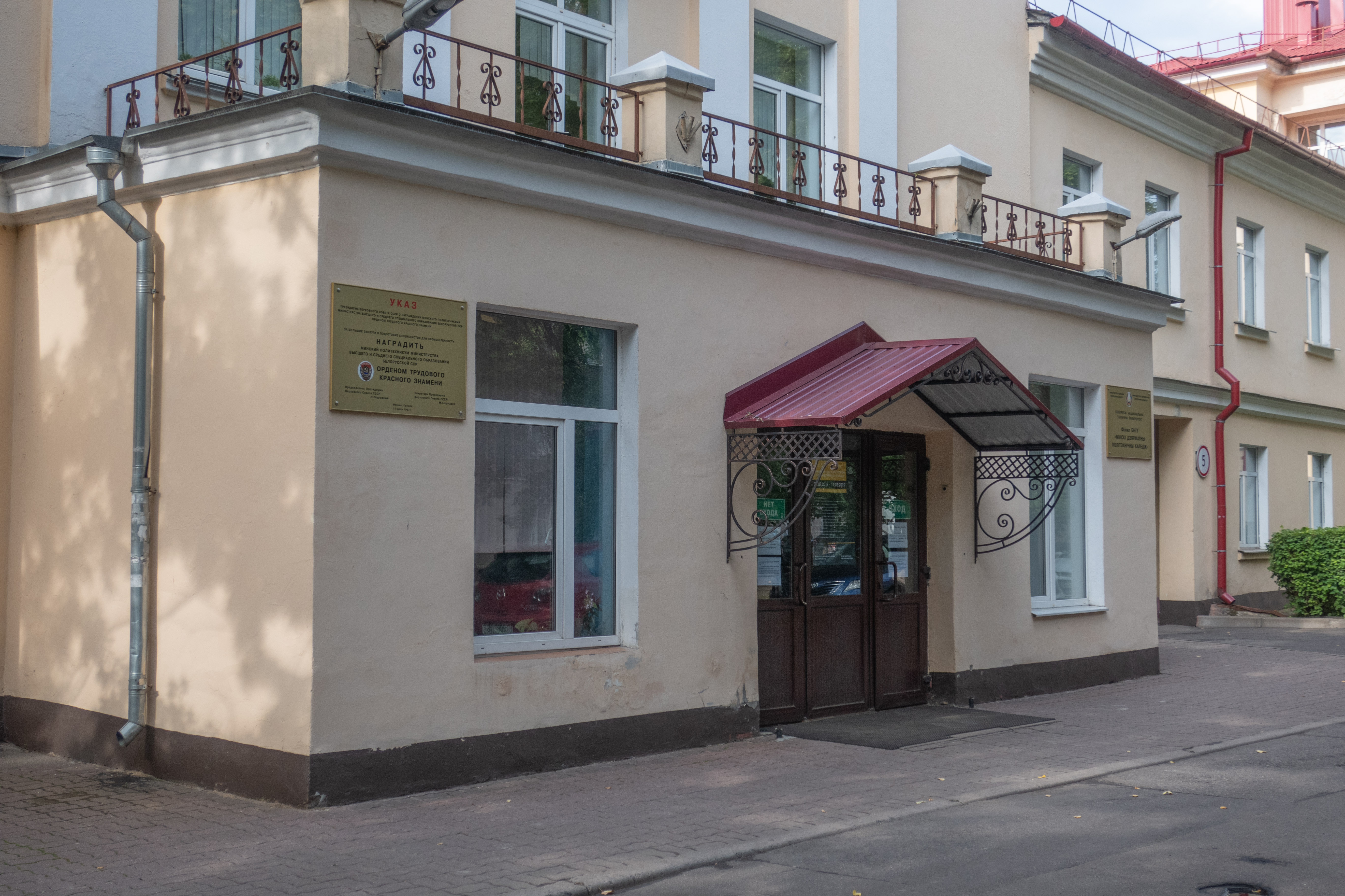 Minsk State Polytechnic College. Minsk, Belarus